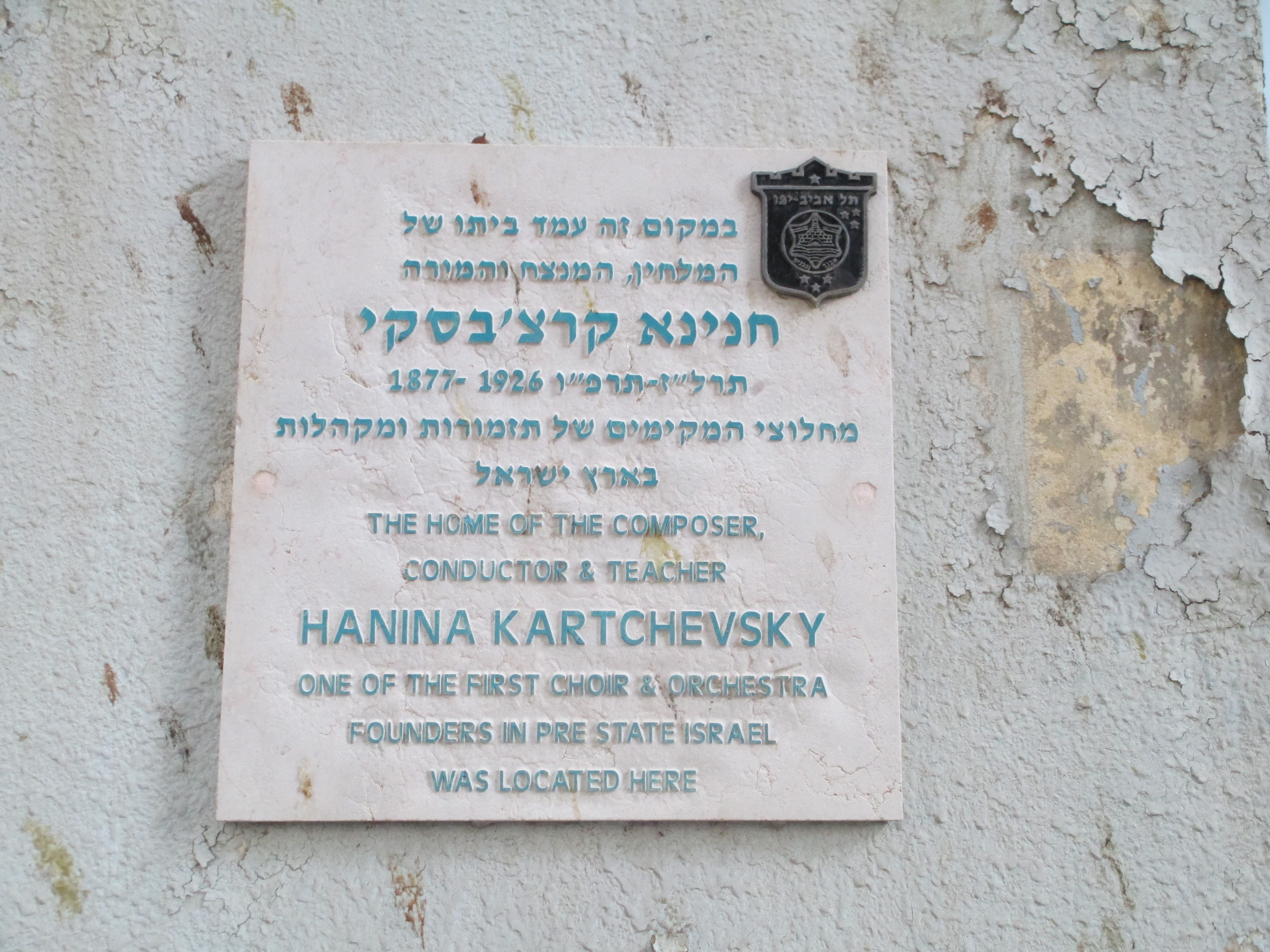 memorial plaque to the composer & conductor hanina karchevsky in tel aviv לוחית זיכרון למלחין והמנצח חנינא קרצ'בסקי ברח' הס 14 בתל אביב